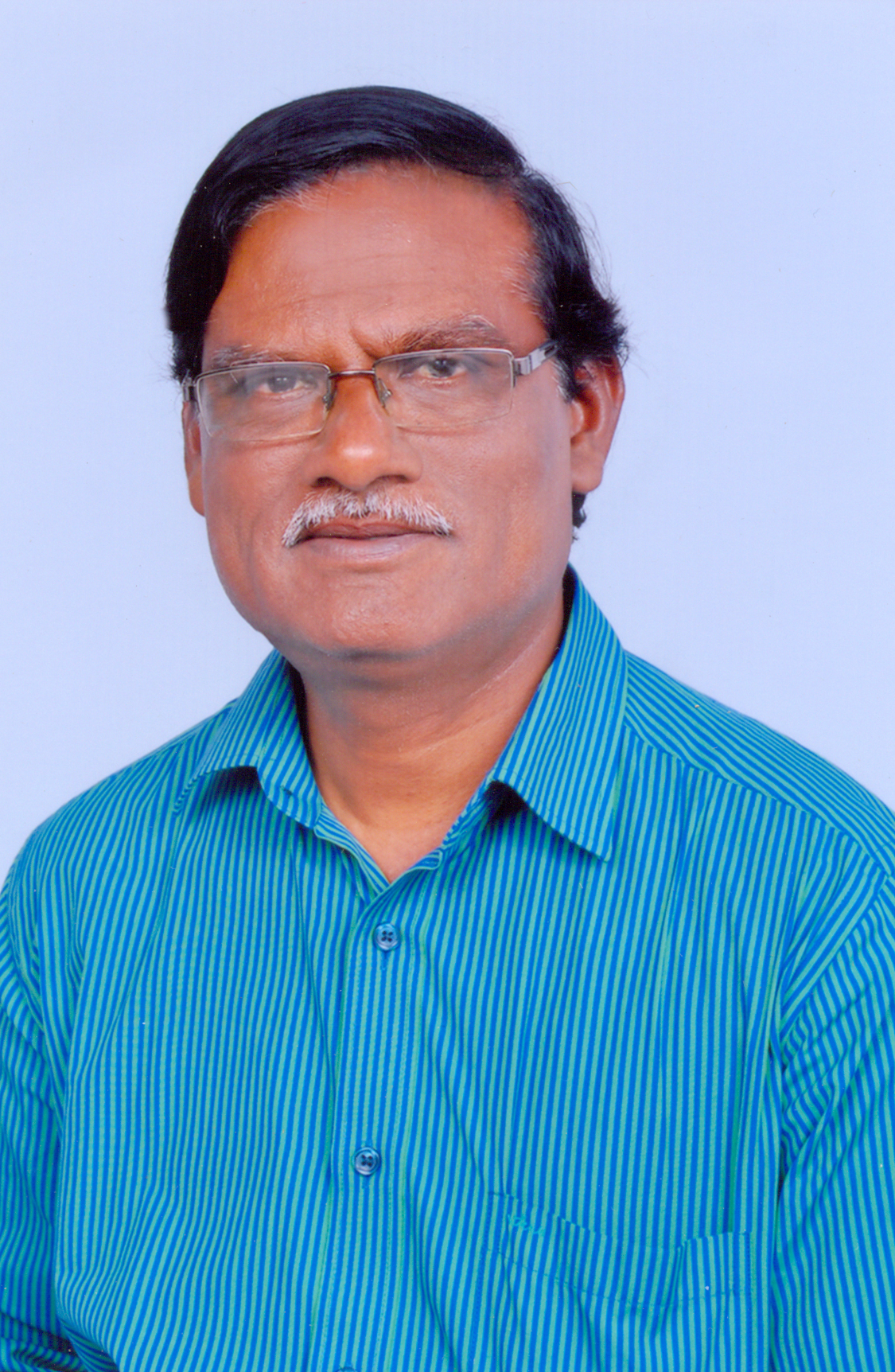 Science Writer